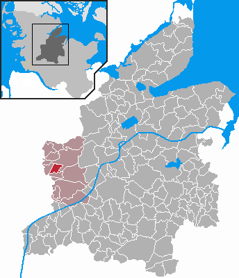 Locator maps of municipalities in Schleswig-Holstein - District Rendsburg-Eckernförde